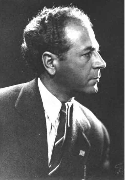 Antun Saadeh, founder of the SSNP.